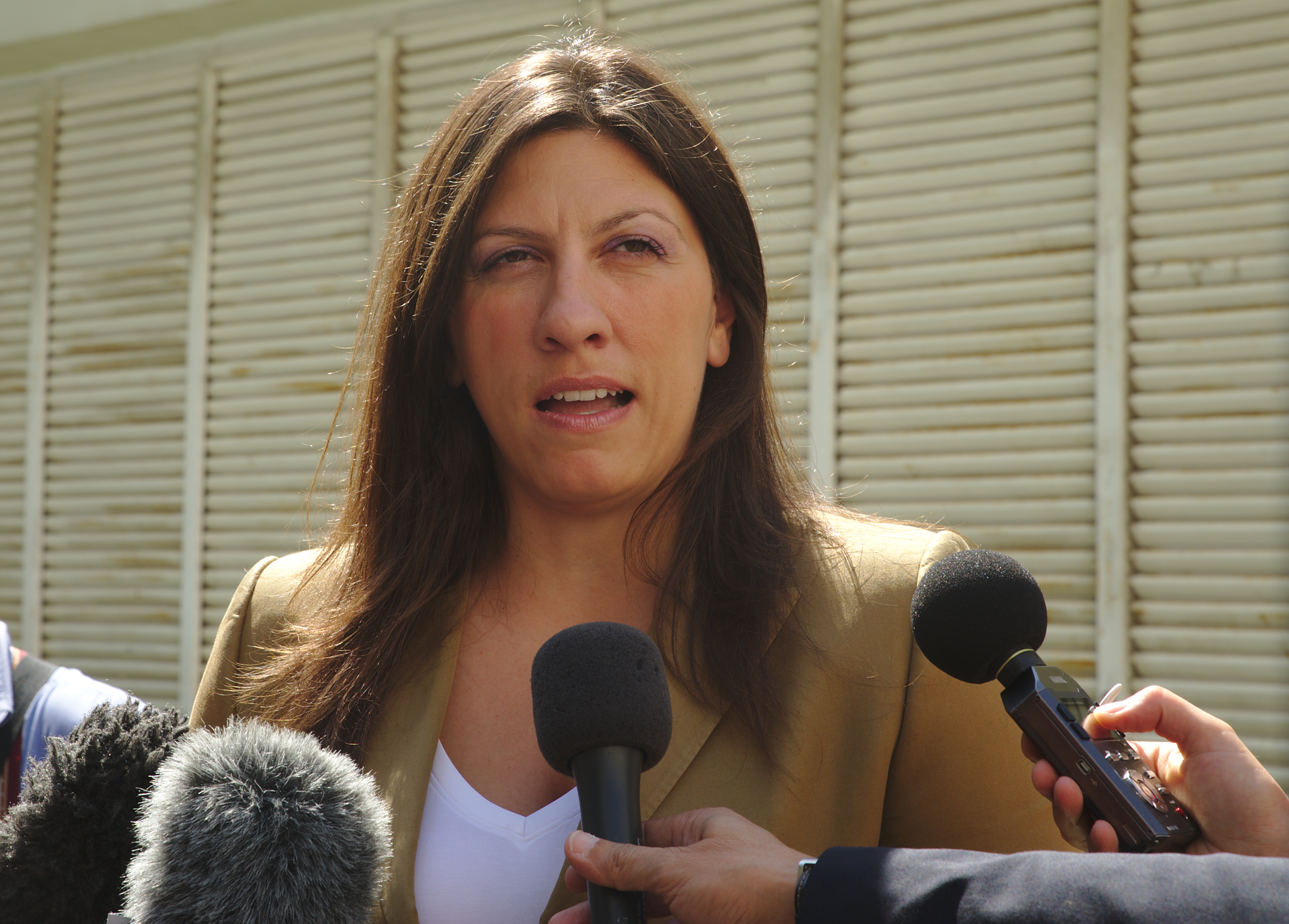 Zoi Konstantopoulou speaks to the press after casting her vote, 20 September 2015 (Athens)